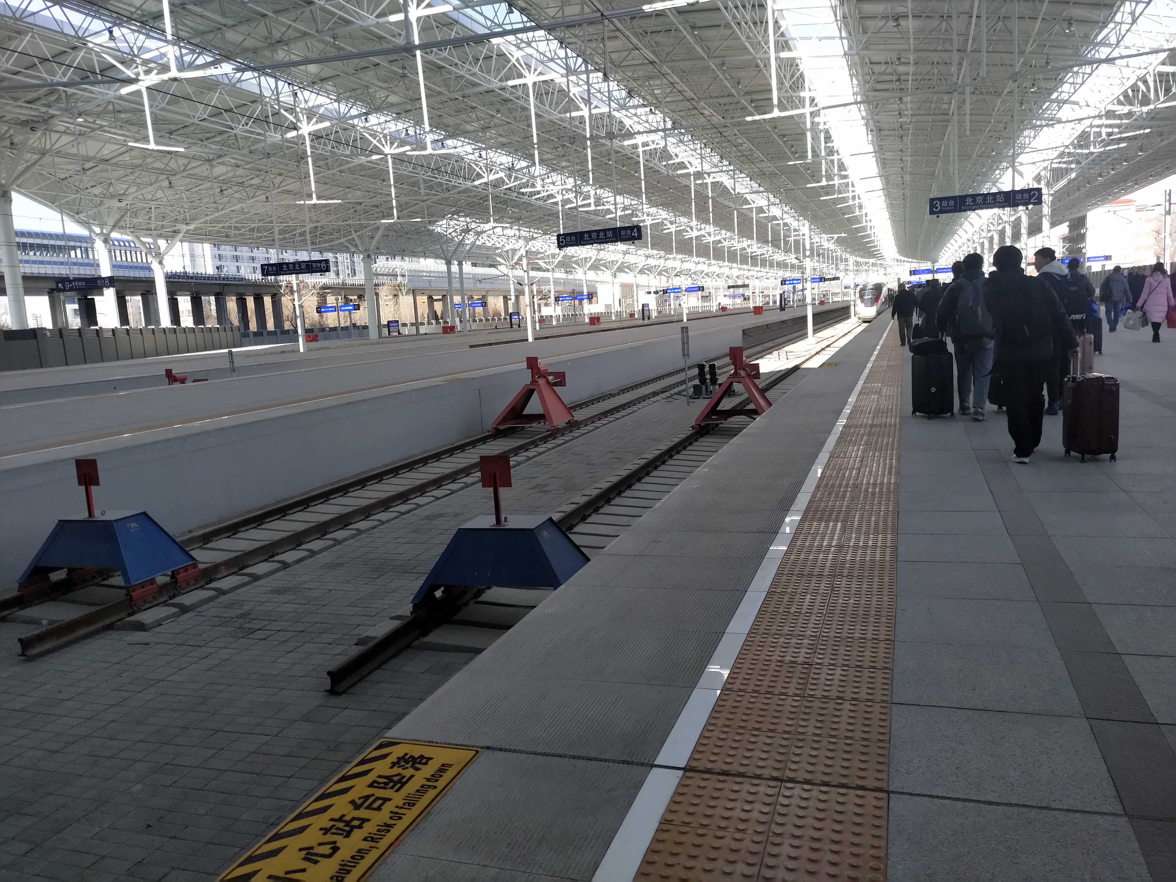 Platform 3 of Beijing North Railway Station. A CR400BF-C stopped on the railway.